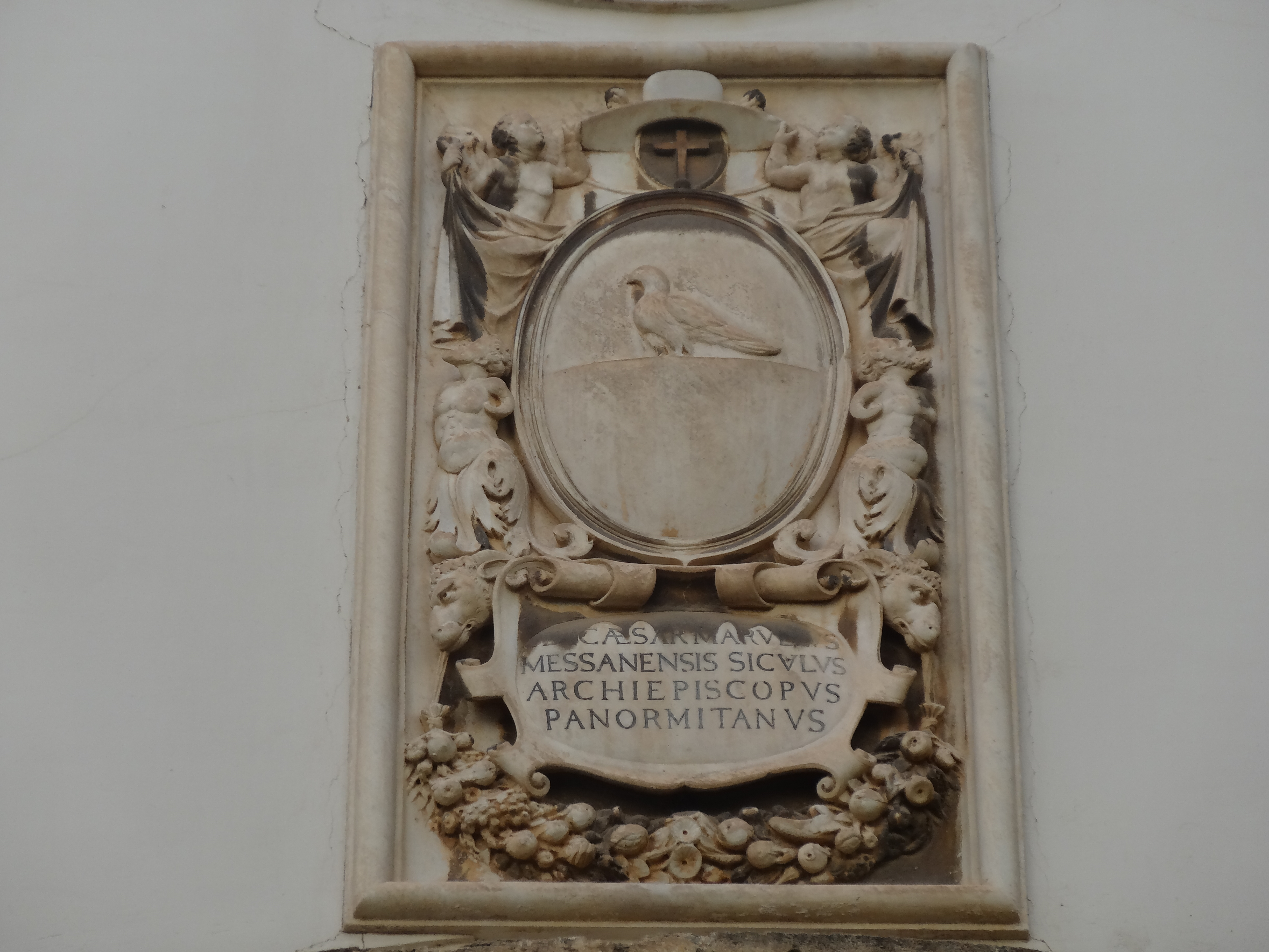 Palazzo arcivescovato palermo